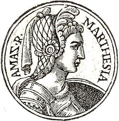 Marpesia ("snatcher") was Queen of the Amazonia women with Lampedo ("burning torch") her sister.